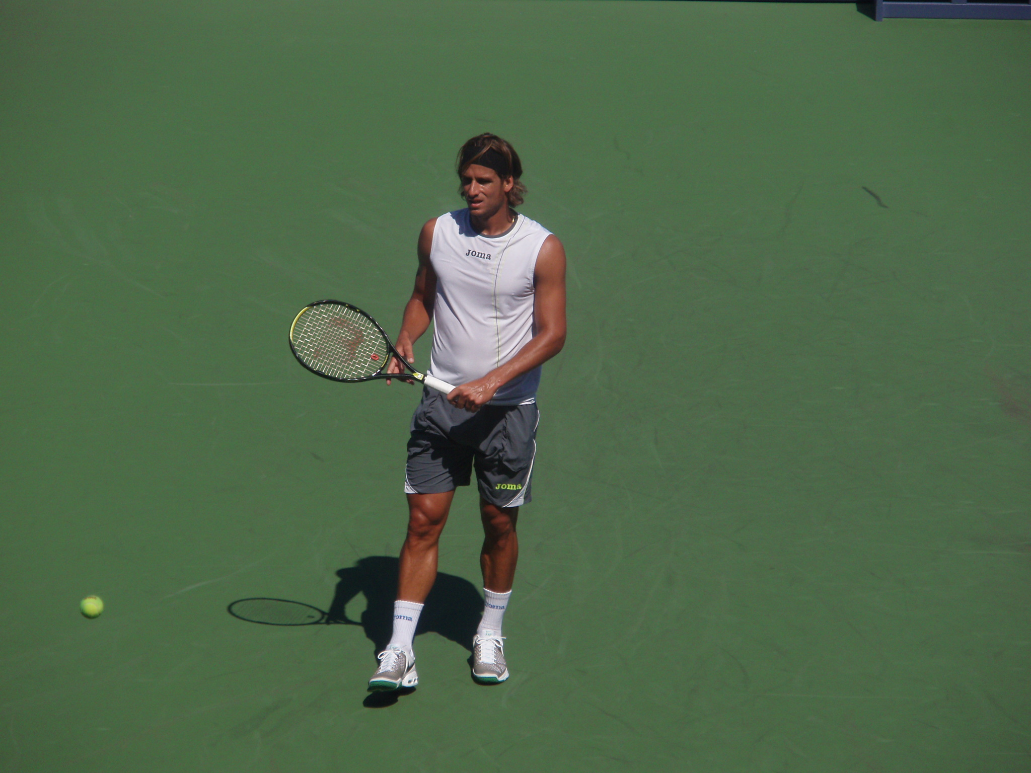 Feliciano Lopez At The 2008 US Open